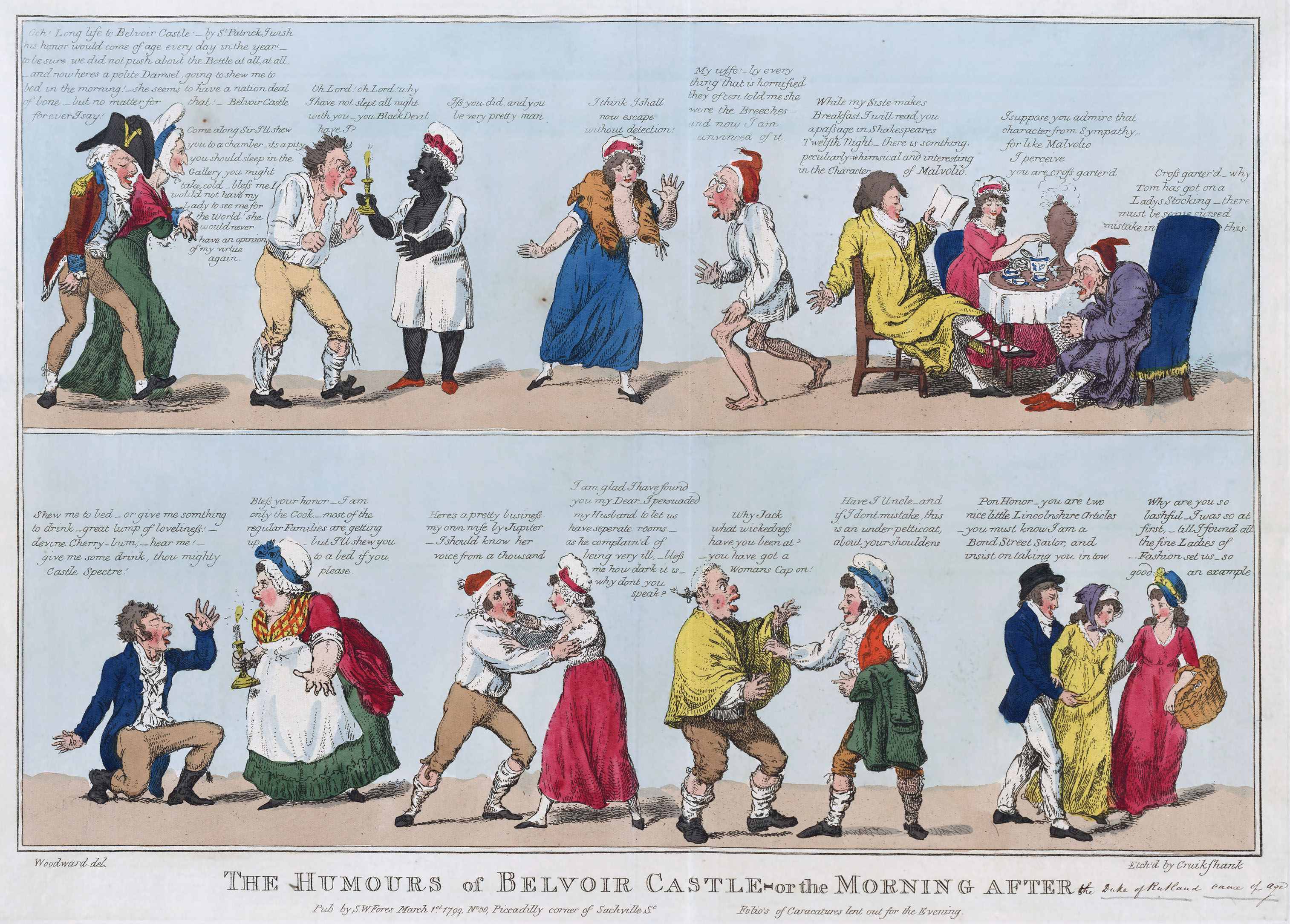 "The Humours of Belvoir Castle -- or the Morning After", a March 1st 1799 English caricature engraving showing the aftermath of a night of upper-class debauchery at a large country mansion, marking the celebration of the owner's coming of age. (One's "coming of age" was the 21st birthday for most purposes, but a will or other legal document could specify a different date on which the inheritor of a property would come into full legal control over it, which was then the "coming of age" with respect to that particular property.) This is a precursor to the infamous Edwardian country-house weekends (but in the pre-railway era of 1799, the whole occasion was likely to last longer than just a weekend). Some old handwriting on this copy of the print says that Cruikshank was parodying the celebration of the Duke of Rutland's coming of age.